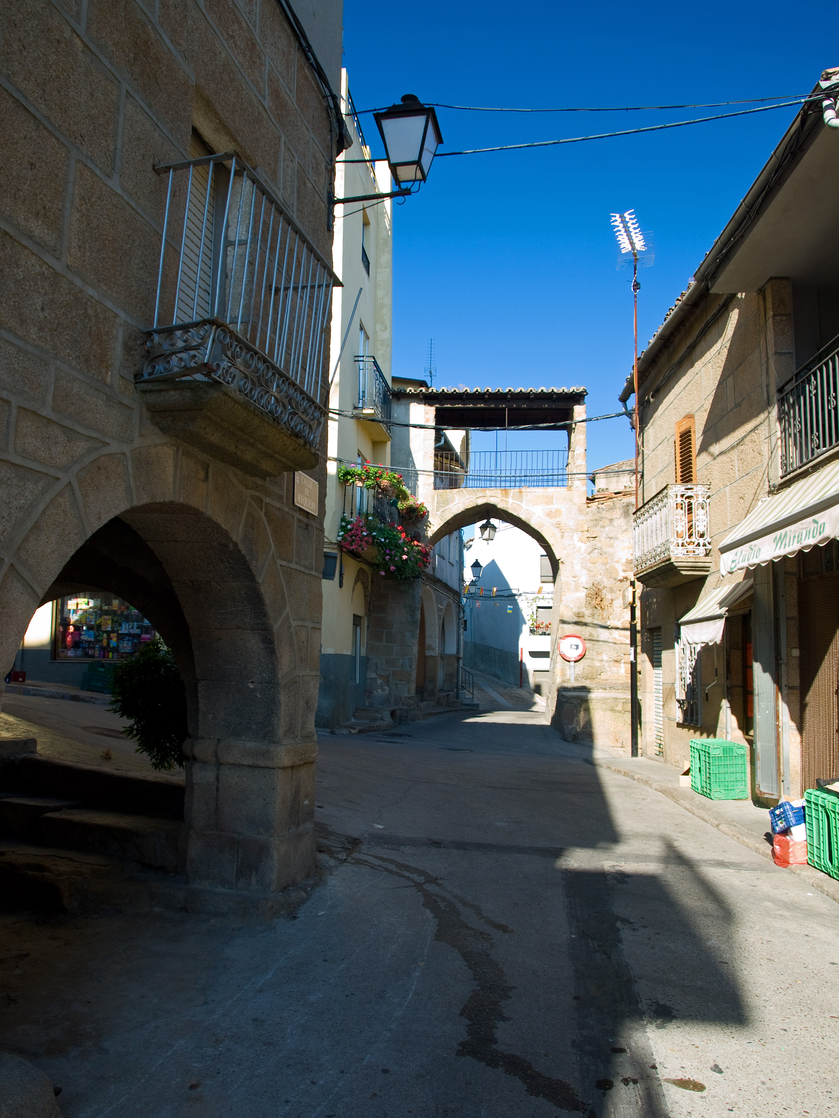 Street and arch in the spanish town of Fermoselle, Province of Zamora